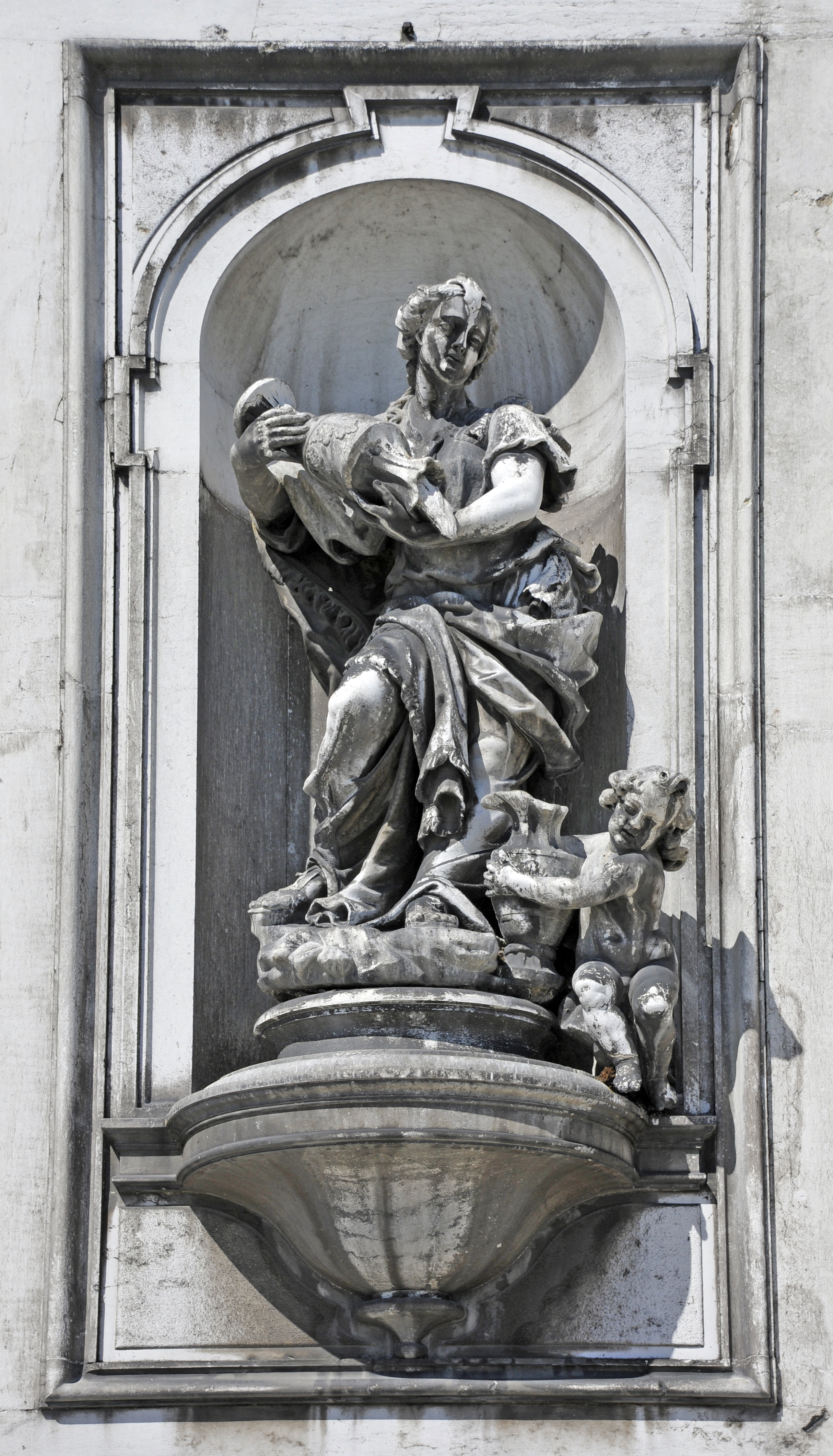 Statue of allegory of Temperance (virtue) by Alvise Tagliapietra on the church of Santa Maria del Rosario (Venice)